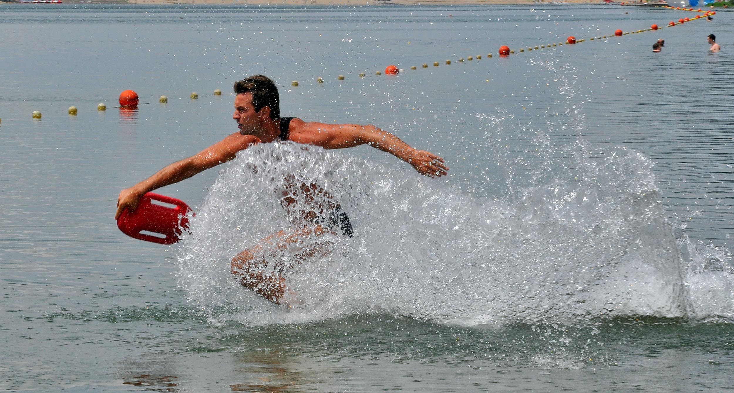 Spasilac 2